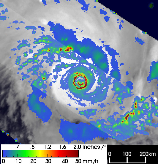 Heta meandered northwest of Samoa over the weekend before turning south and passing just west of the islands on Monday, January 5, 2004. Winds up to 105 miles per hour buffeted the islands knocking out power, uprooting trees, and causing extensive roof damage. After passing Samoa, Heta continued southeast and intensified with sustained winds estimated at 133 miles per hour and gusts of up to 185 miles per hour as it was headed for the tiny island nation of Niue. The Tropical Rainfall Measuring Mission (TRMM) satellite captured this impressive image of Cyclone Heta as it was passing just west of Samoa. The image was taken at 6:08 UTC on January 5, 2004. This image shows the horizontal distribution of rain rates as seen from above by the TRMM satellite. Rain rates in the center swath are from the TRMM Precipitation Radar (PR), the first precipitation radar in space, while rain rates in the outer swath are from the TRMM Microwave Imager (TMI). The rain rates are overlaid on infrared (IR) data from the TRMM Visible Infrared Scanner (VIRS). TRMM reveals that Heta has a double eyewall structure, which can sometimes occur in mature, intense tropical cyclones. The outer eyewall, the intense band of heavy, 2-inch-per-hour rain rates shown by the dark red circle completely surrounds a partial inner eyewall shown by the smaller dark red semicircle. Tropical cyclones act as large heat engines. When water vapor condenses into the cloud droplets that form the precipitation, heat, known as latent heat, is released and drives the storm. Generally, the more heat that is released, the more powerful the storm will become. This heating is also most effective near the center of the storm as is the case with Heta. TRMM is a joint mission between NASA and the Japanese space agency NASDA.